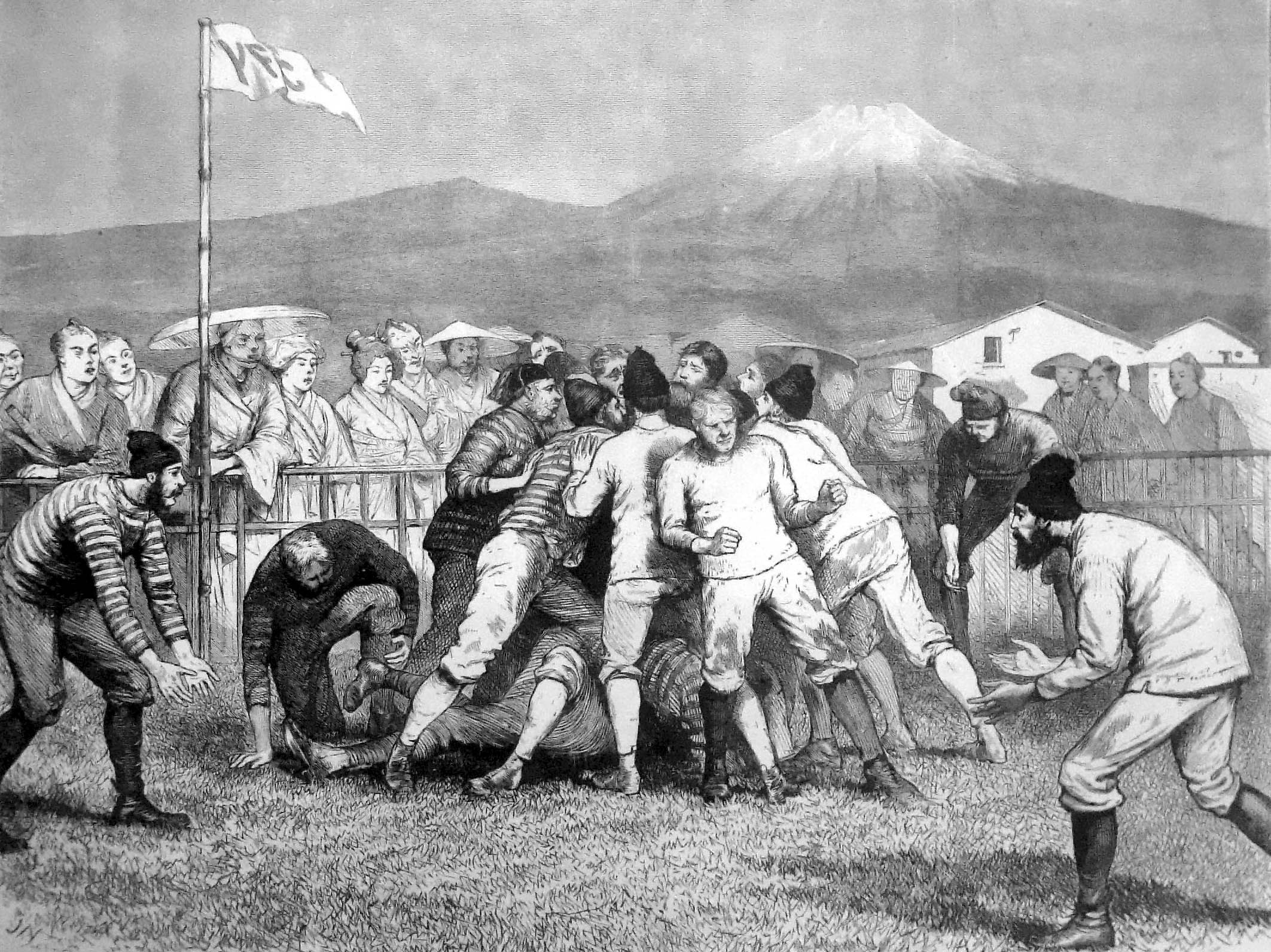 Scene of a rugby football match in Japan.